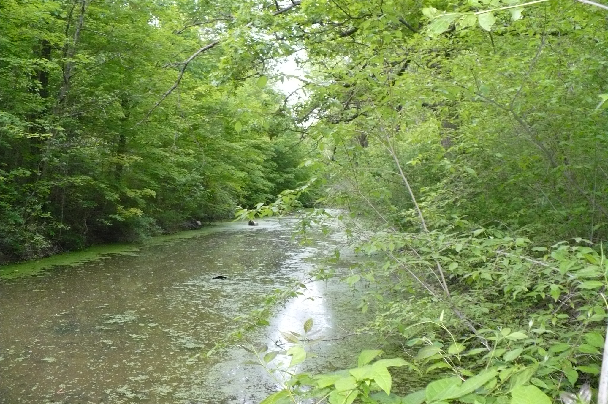 Miami and Erie Canal Deep Cut in summer; photograph taken from the Auglaize County portion looking northward into Allen County.